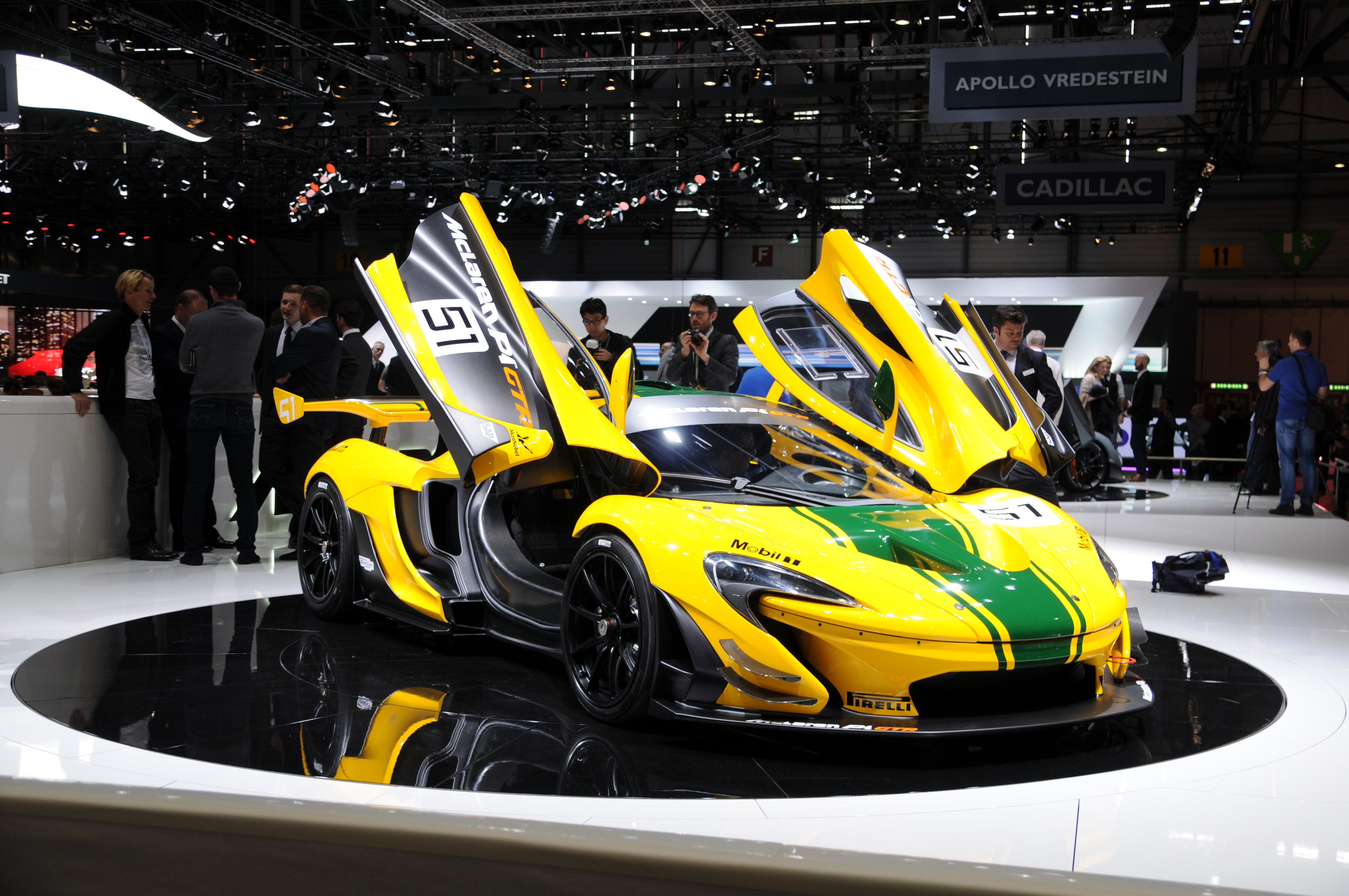 Geneva Motor Show 2015 (photo taken on the first press day)